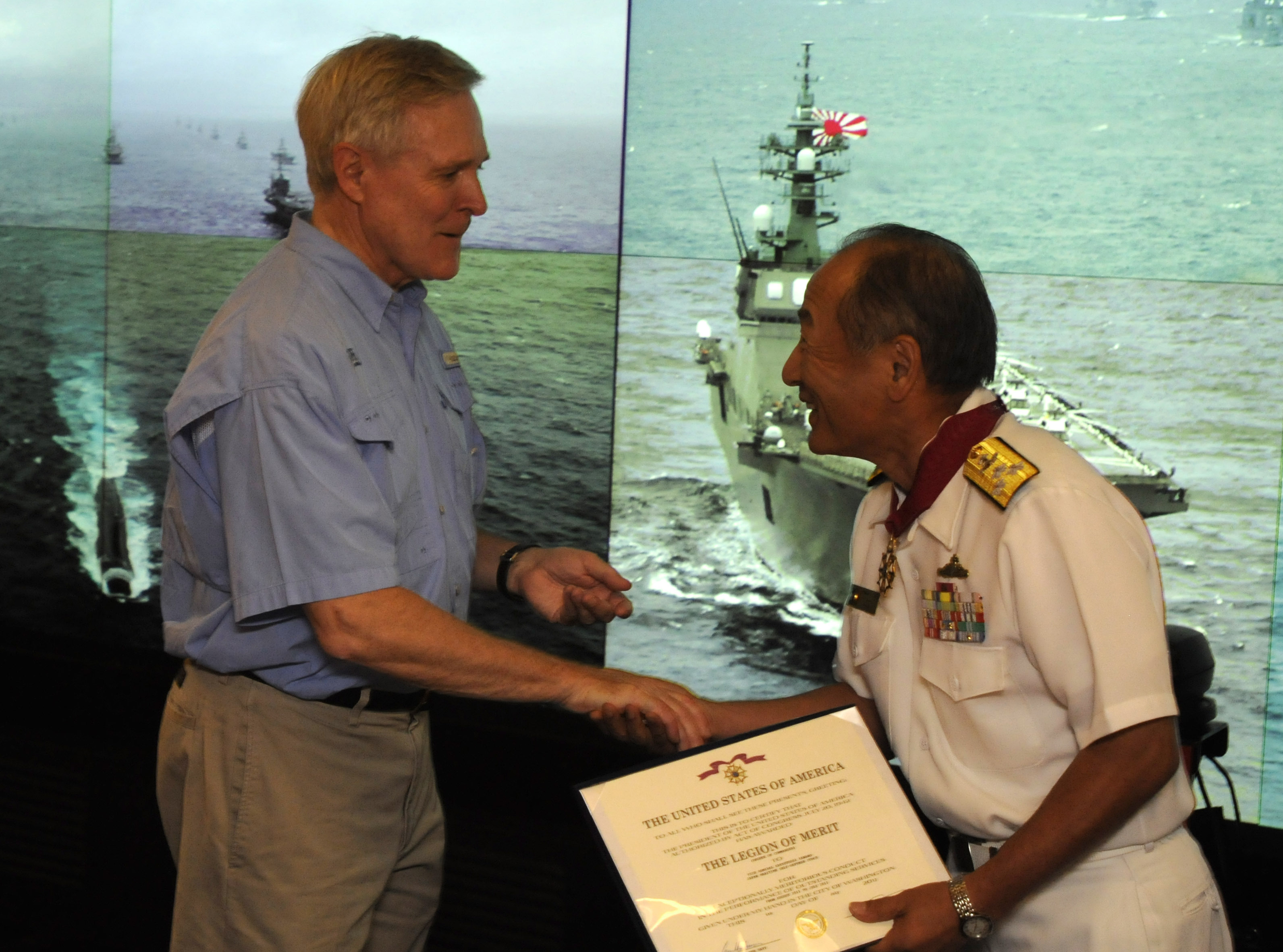 Secretary of the Navy Ray Mabus, left, congratulates Japan Maritime Self-Defense Force Vice Adm. Katsutoshi Kawano, commander in chief, Self-Defense Fleet, after awarding him the Legion of Merit aboard U.S 7th Fleet flagship USS Blue Ridge (LCC 19) during to an award ceremony. (U.S. Navy photo by Mass Communication Specialist 2nd Mel Orr/Released)